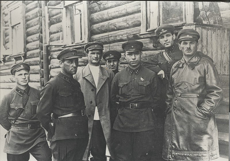 OGPU-chiefs responsible for construction of the White Sea - Baltic Canal, Right: Naftaly Frenkel, Center: Matvei Berman (head of the Gulag from 1932-1939), Left: Afanasev (Head of the southern part of BelBaltLag)